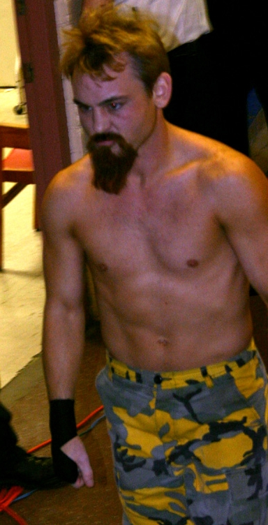 Spike Dudley during a WWE house show held in Kitchener, Ontario, Canada on January 15, 2005.